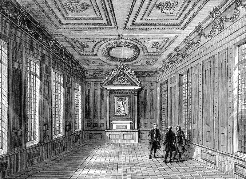 Inside the Marshalsea Court, or Palace Court of the Marshalsea, London